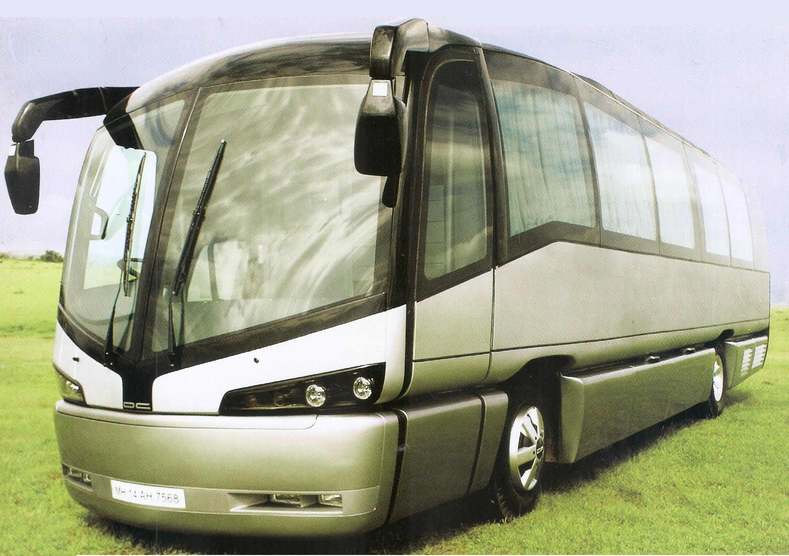 Ashok Leyland Inter-city luxury bus